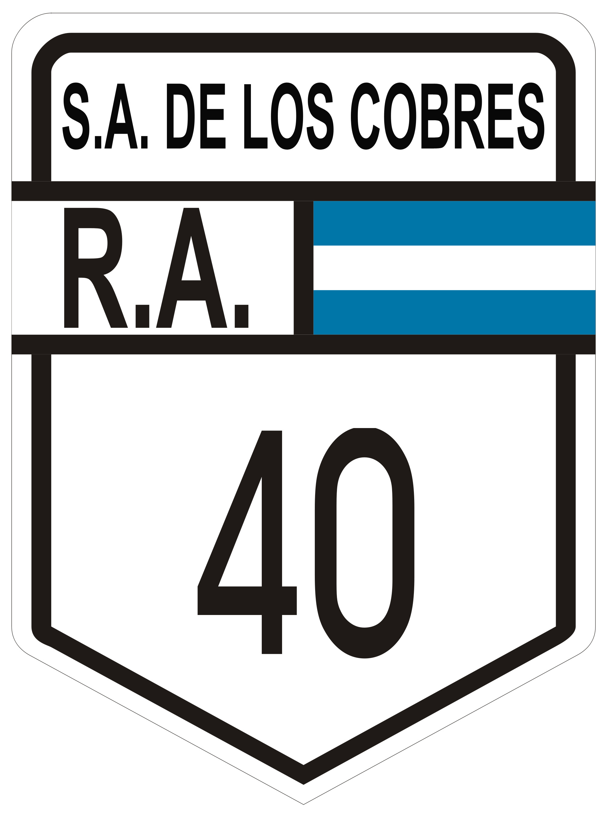 Ruta Nacional 40 information sign of Argentina.